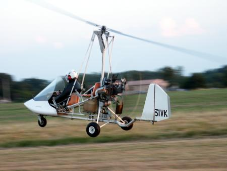 Autogyro